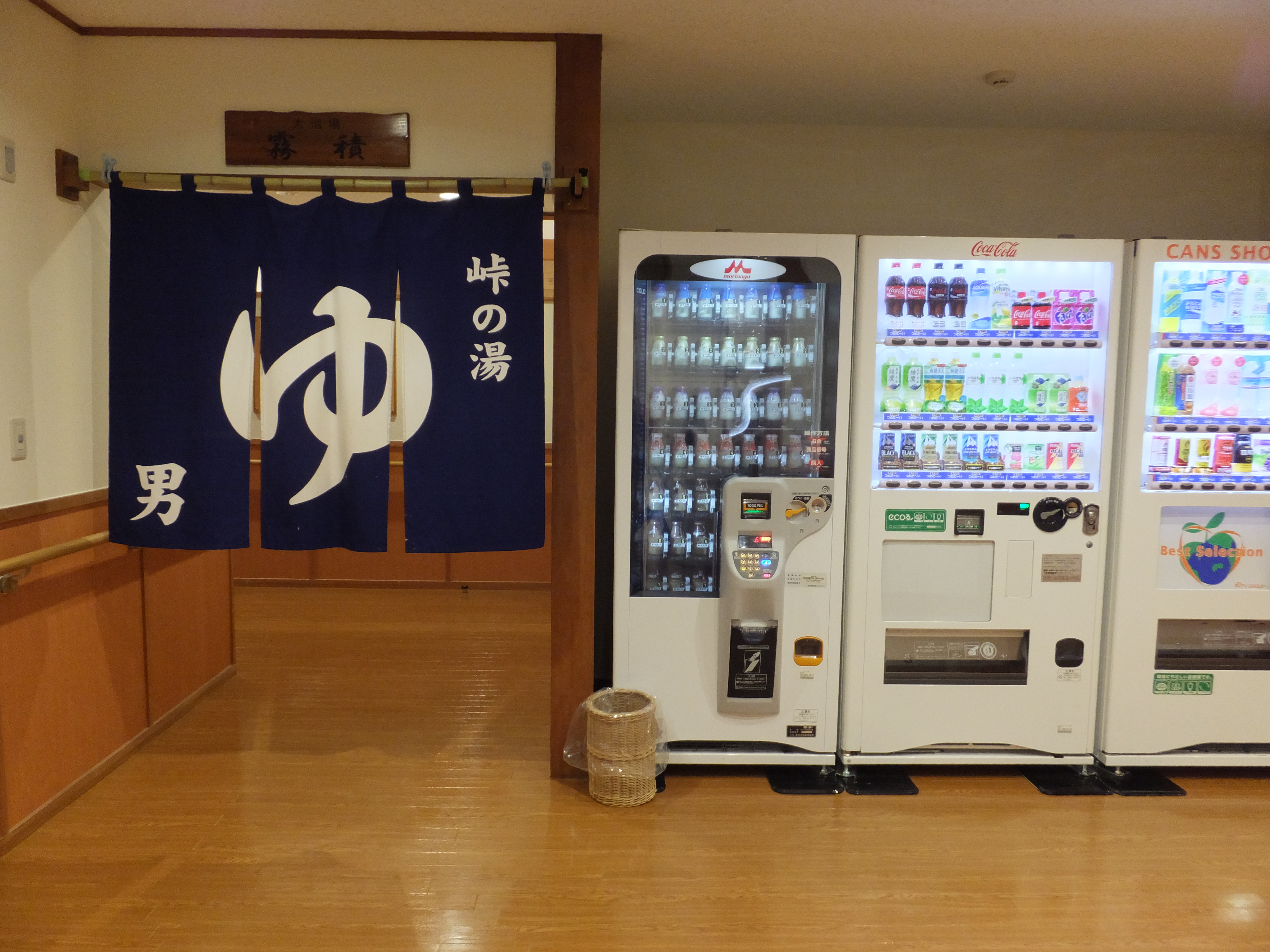 Entrance to male bath at the Usuitoge-no-mori Koen Koryukan Toge-no-yu in Annaka City, Gunma Prefecture, Japan